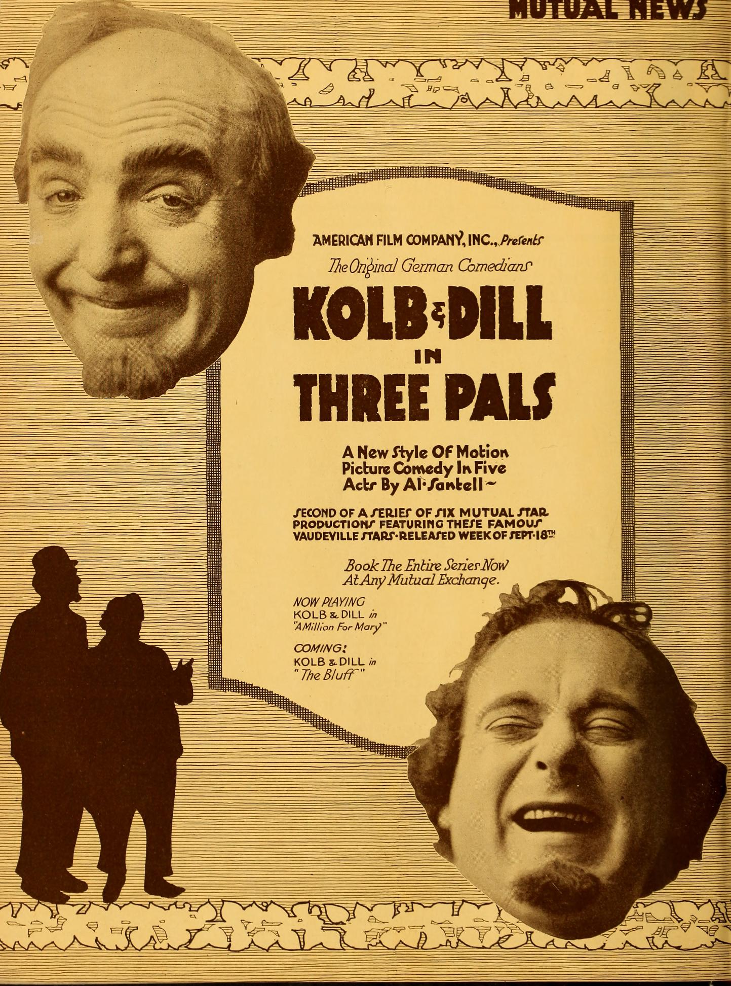 Advertisement in Moving Picture World for the American film The Three Pals (1916).